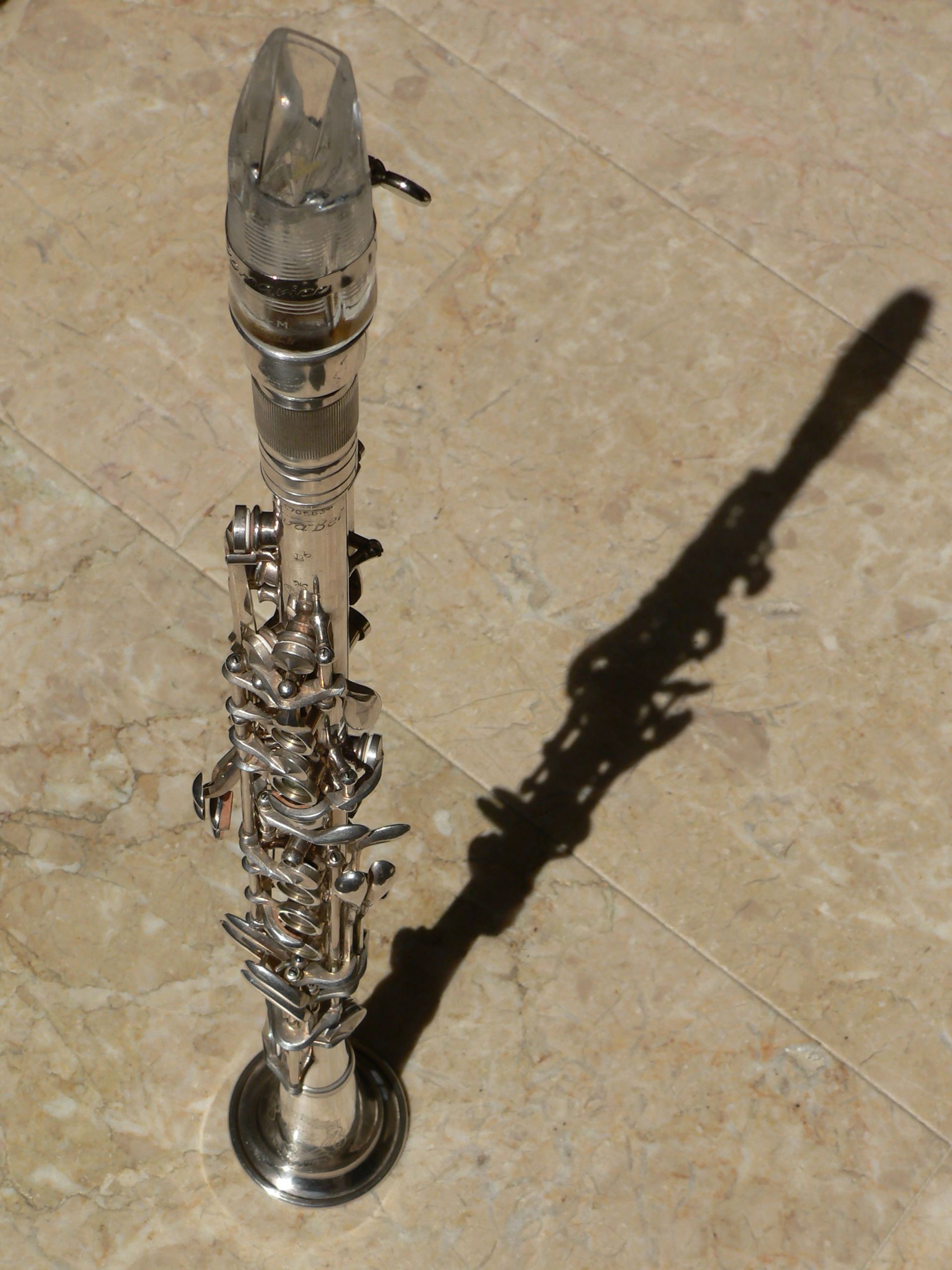 Silva Bet clarinet S5047 with German mouthpiece (Zinner #120 3*m)